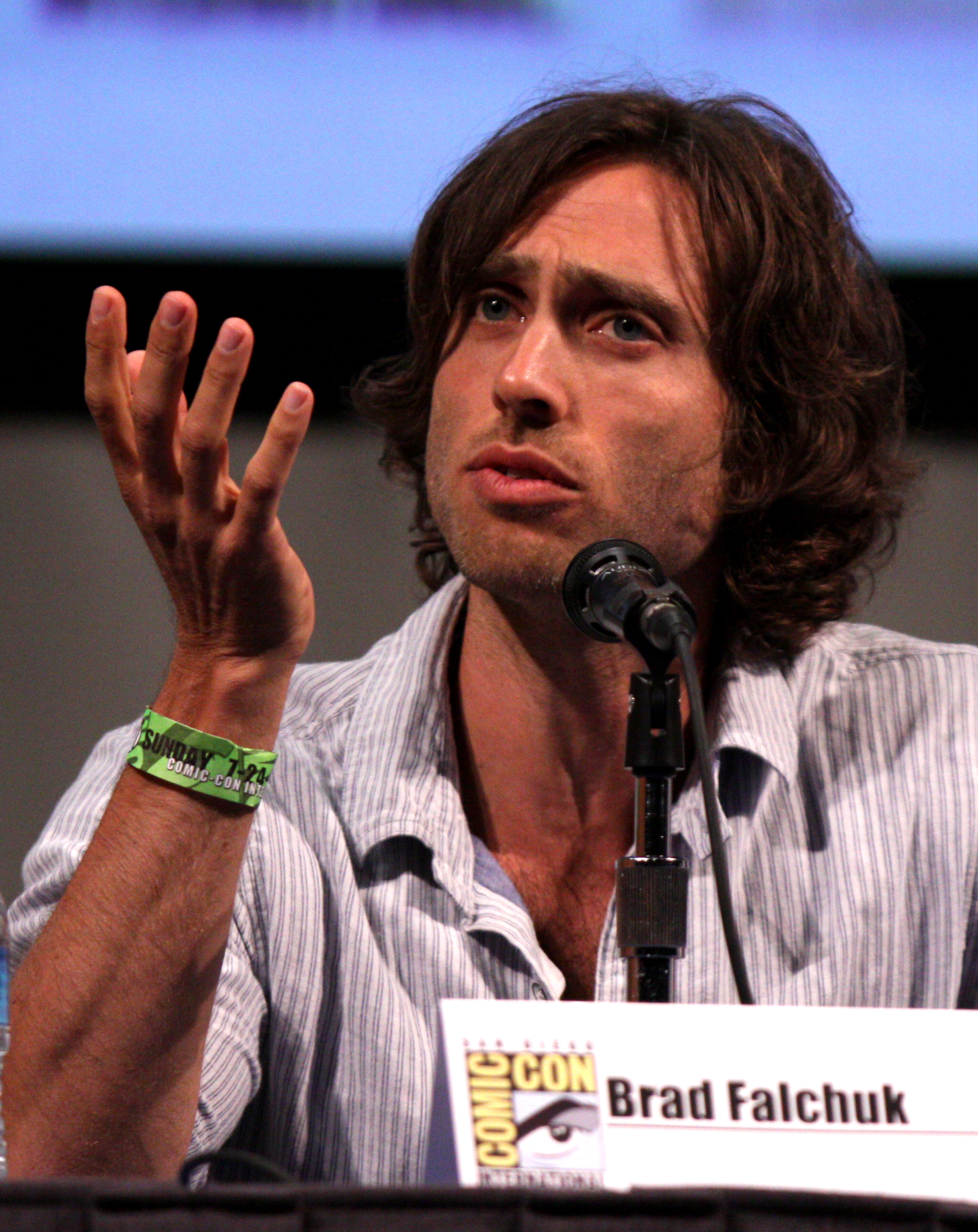 Brad Falchuk at the 2011 Comic Con in San Diego